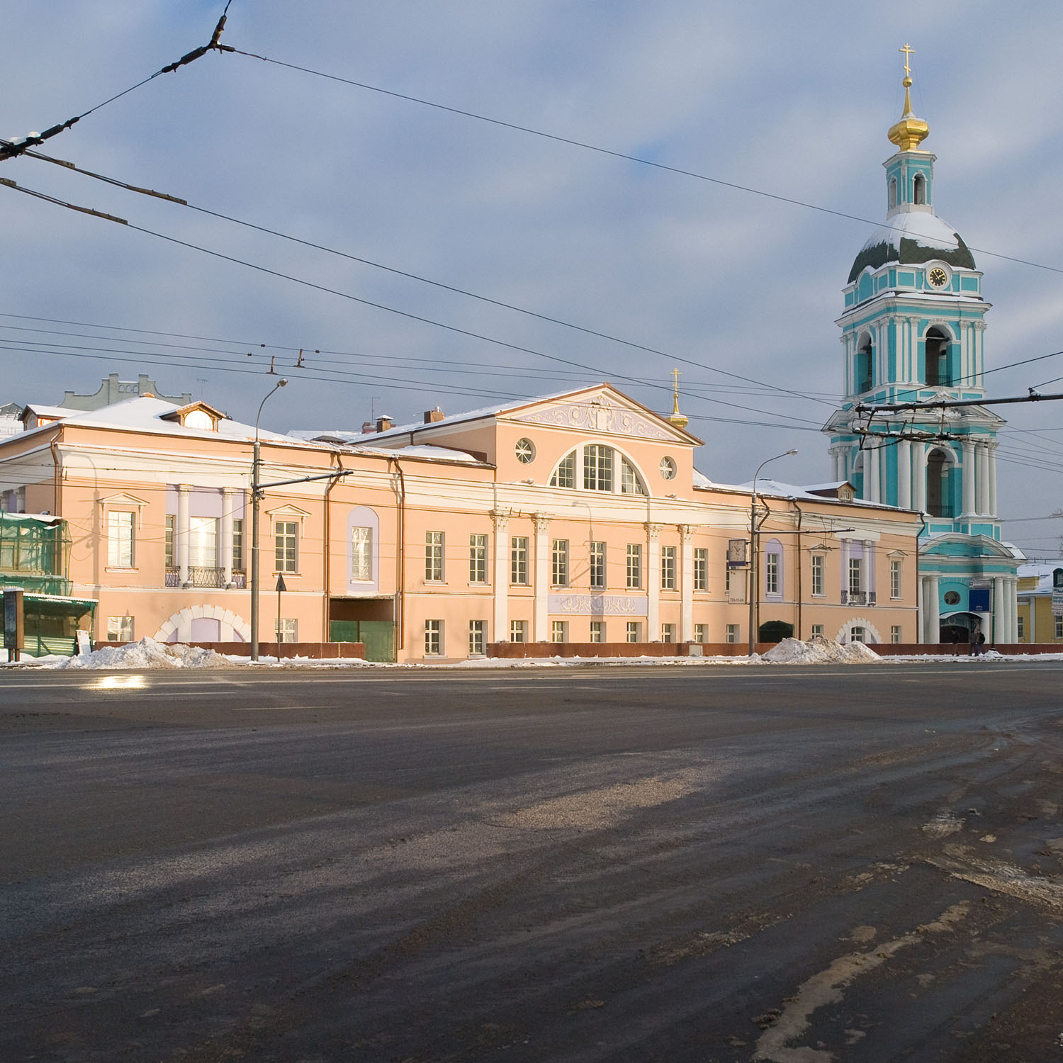 Yauzskaya Street, Moscow.